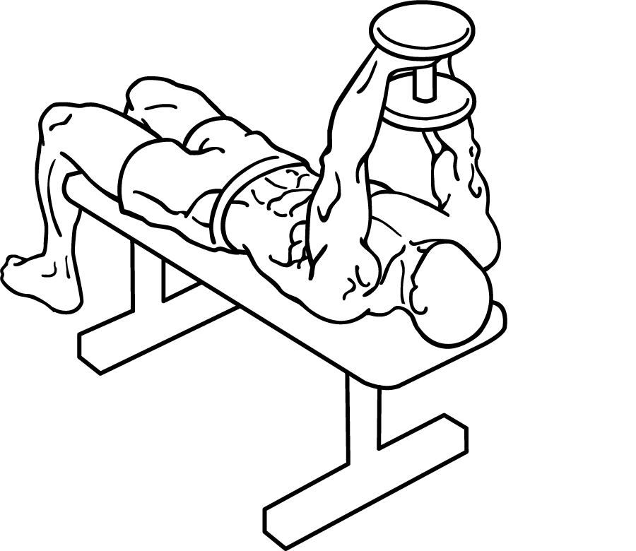 an exercise of upper back